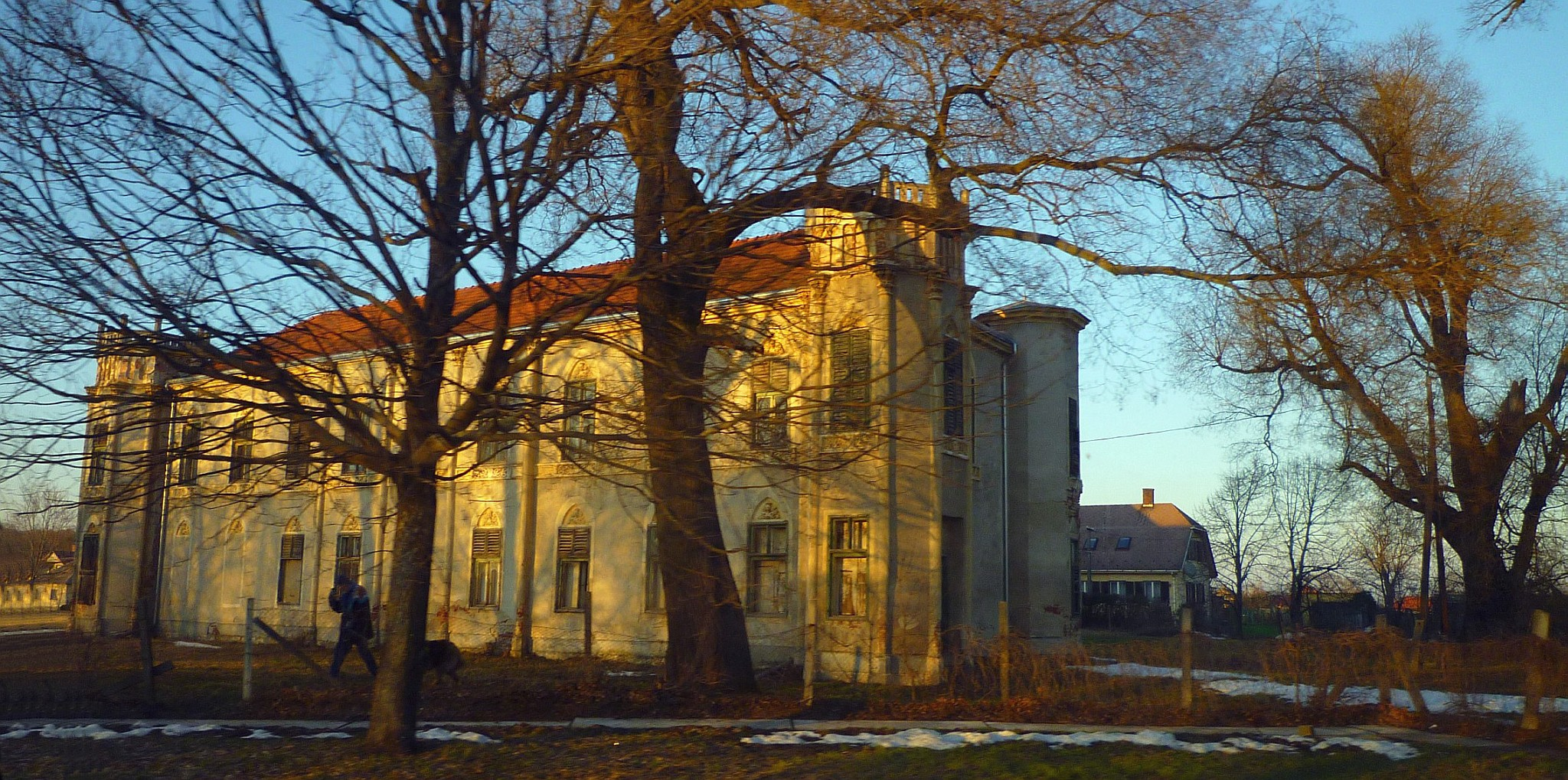 Former school of Egyed, Hungary at sunset